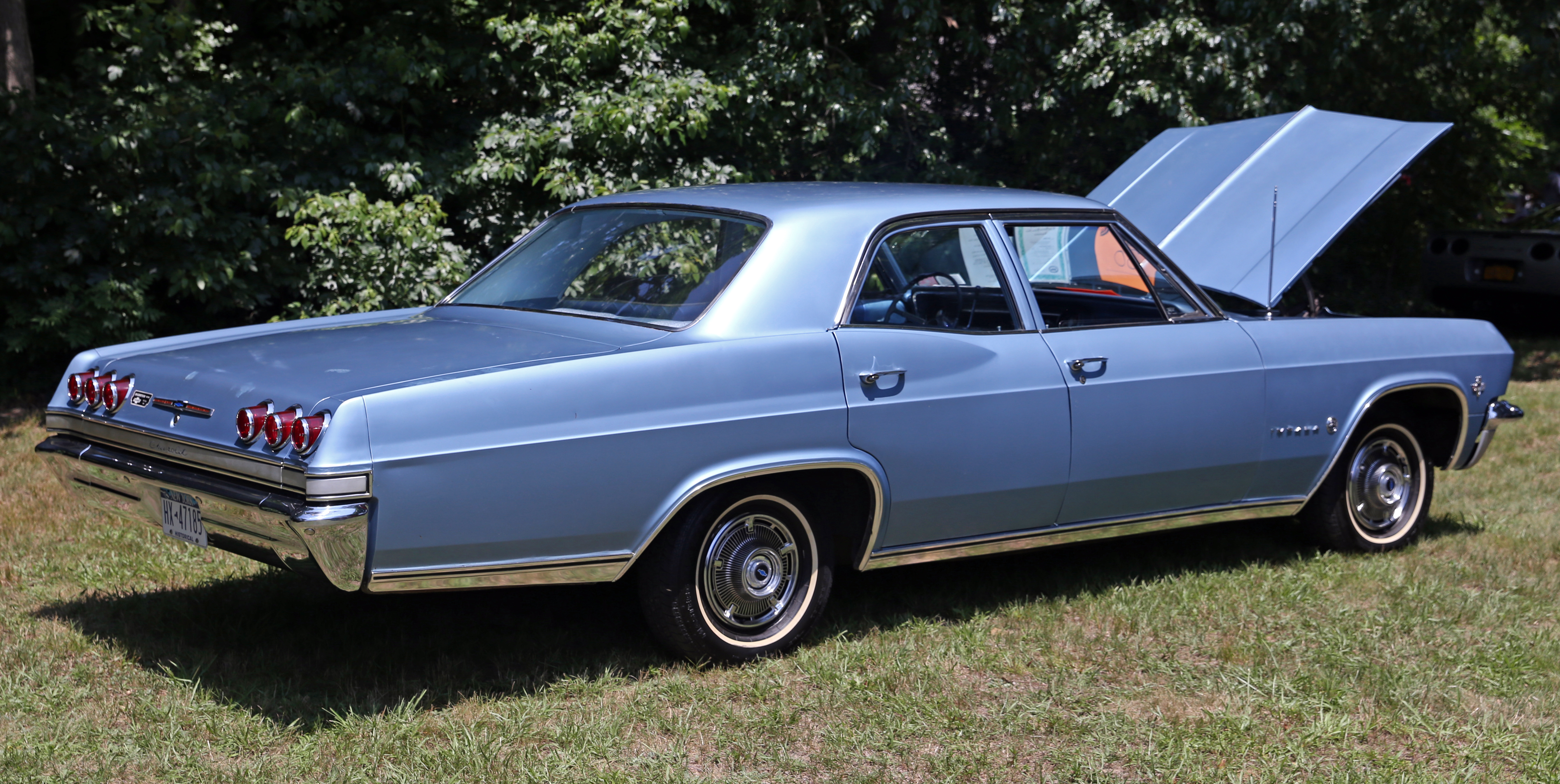 Rear right 3/4 view of a 1965 Chevrolet Impala four-door sedan in Blue Mist (trim B, paint DD). Low mileage, three-owner car with the 283 V8 (195hp) and the optional two-speed Powerglide automatic transmission, Posi-Traction rear, power steering, seat belts, AM radio, and stainless steel deluxe wheel covers.